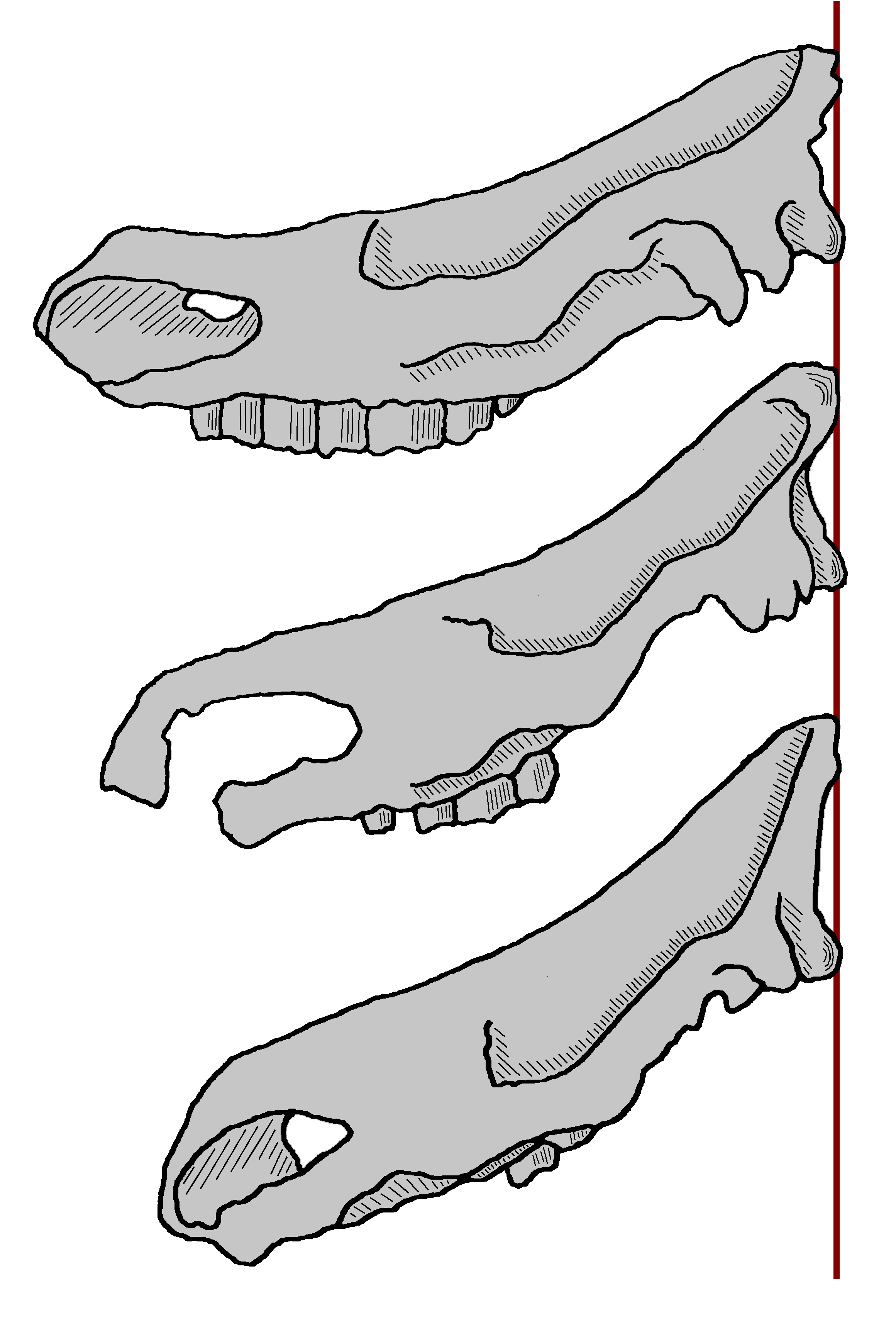 Schematic description of the changing head positions of woolly rhino during its evolution. Above: Coelodonta nihowanensis, center: Coelodonta tologoijensis below: Coelodonta antiquitatis.